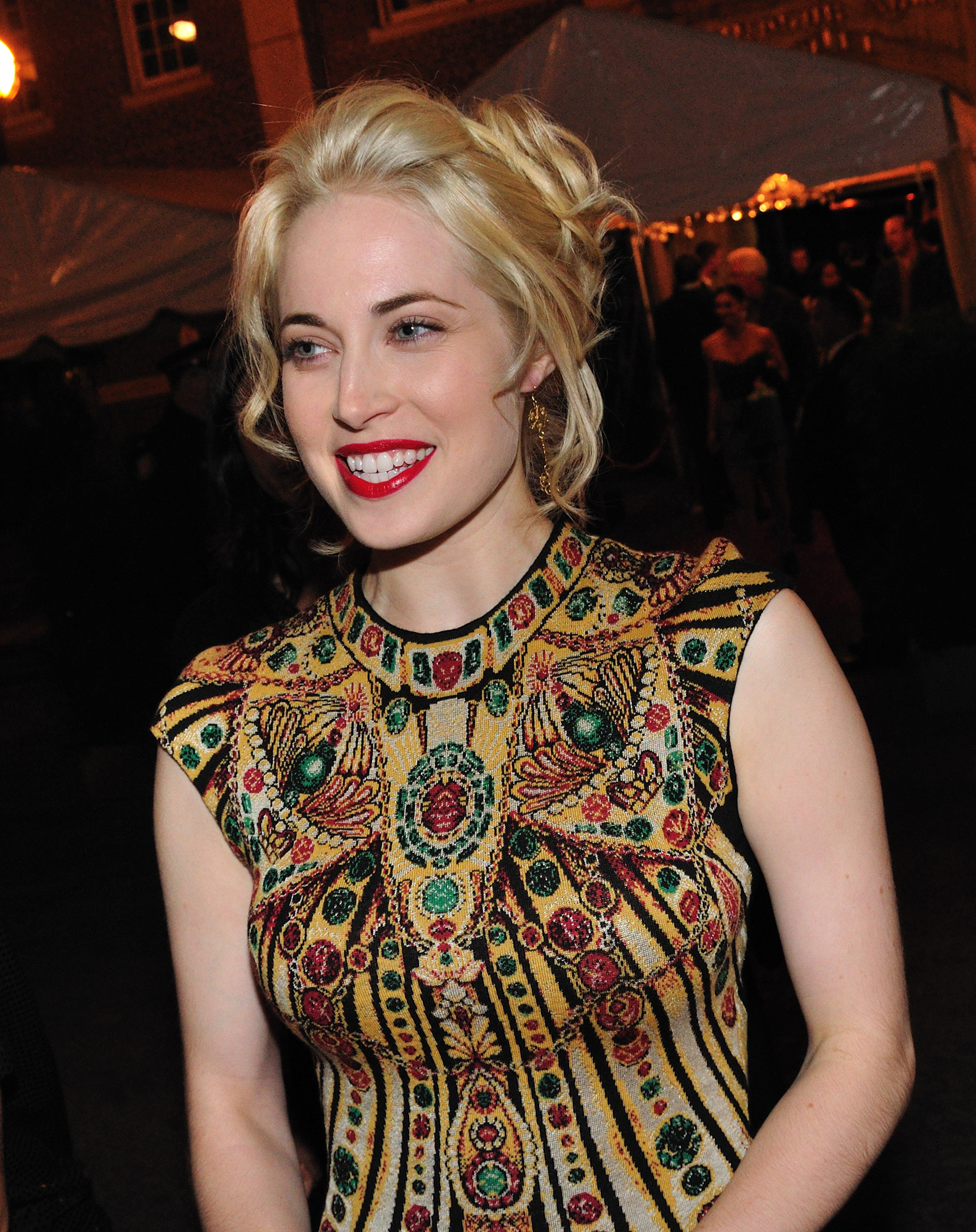 Charlotte Sullivan at the InStyle party at the 2010 Toronto International Film Festival